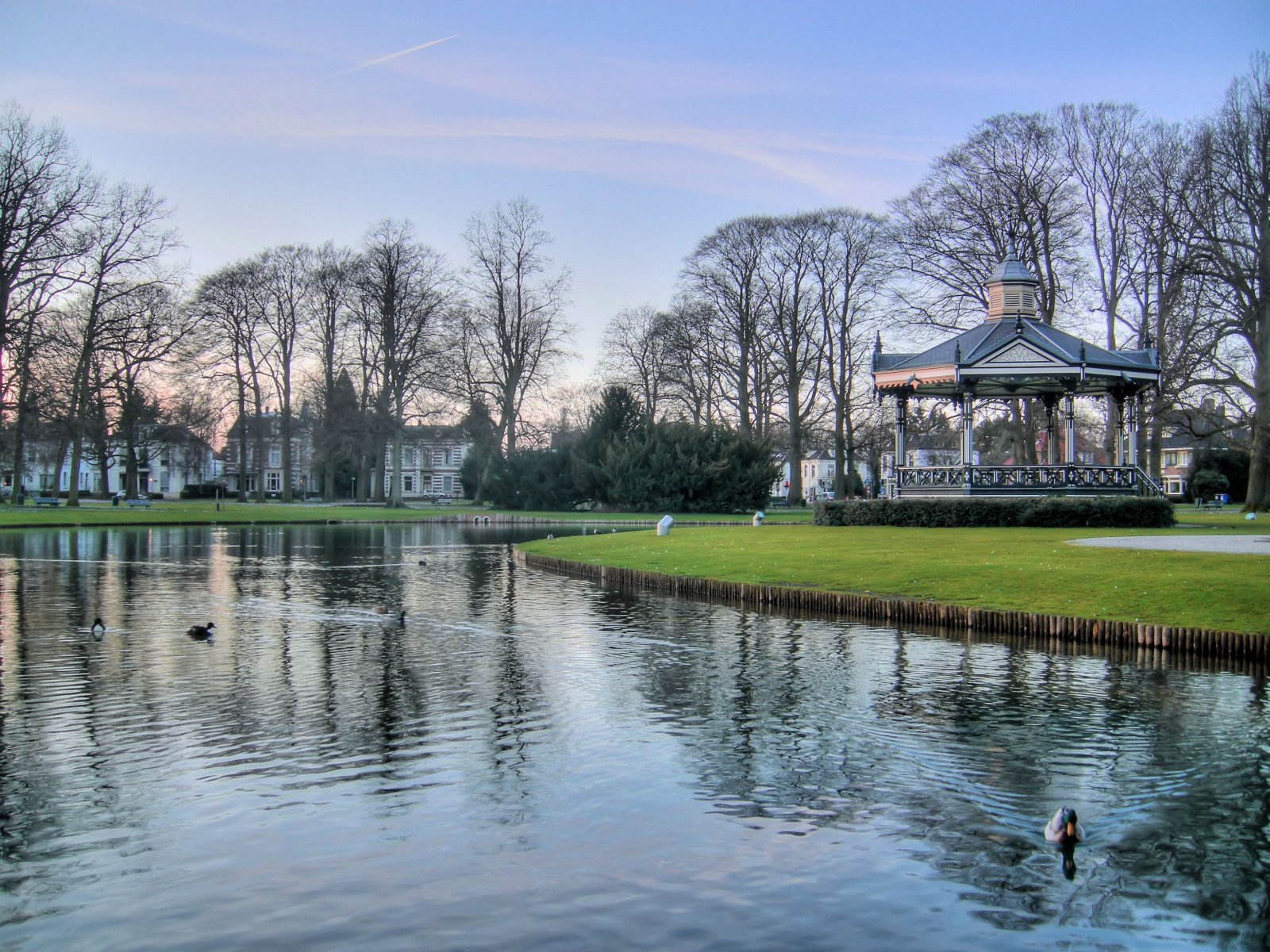 Oranjepark,Apeldoorn ,The Netherlands